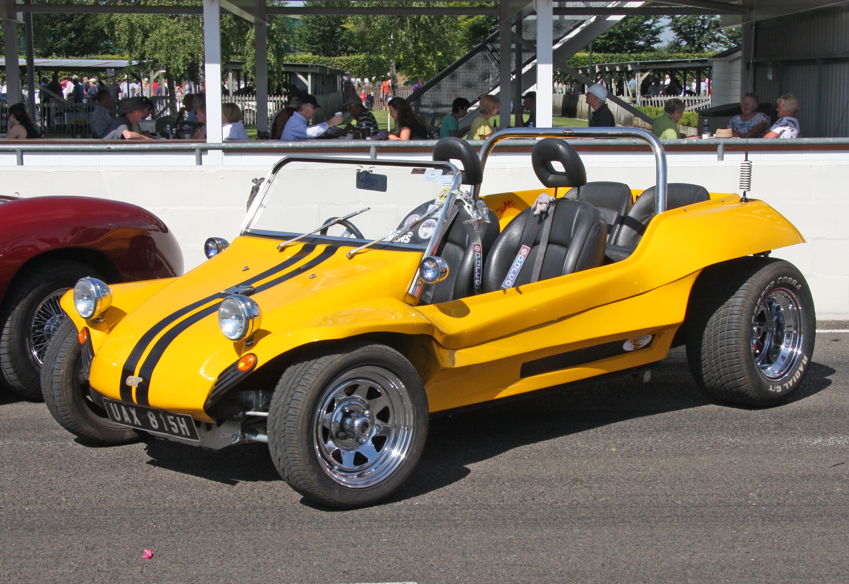 Beach buggy